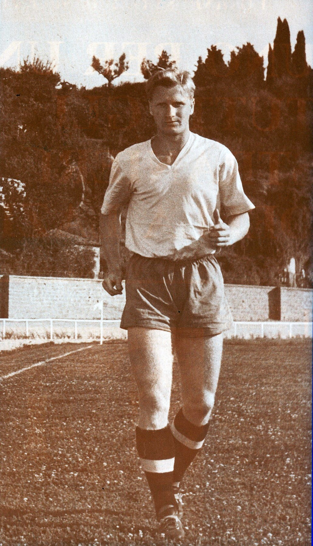 Swedish footballer Arne Selmosson at S.S. Lazio in 1955-56 season